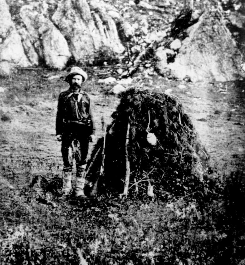 Valentine T. McGillycuddy, surgeon and topographer on hunger march with General Crook's expedition to the Black Hills, Dak. Terr.